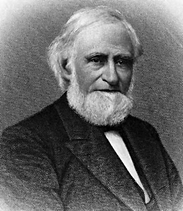 John Z. Goodrich, US Representative from Massachusetts